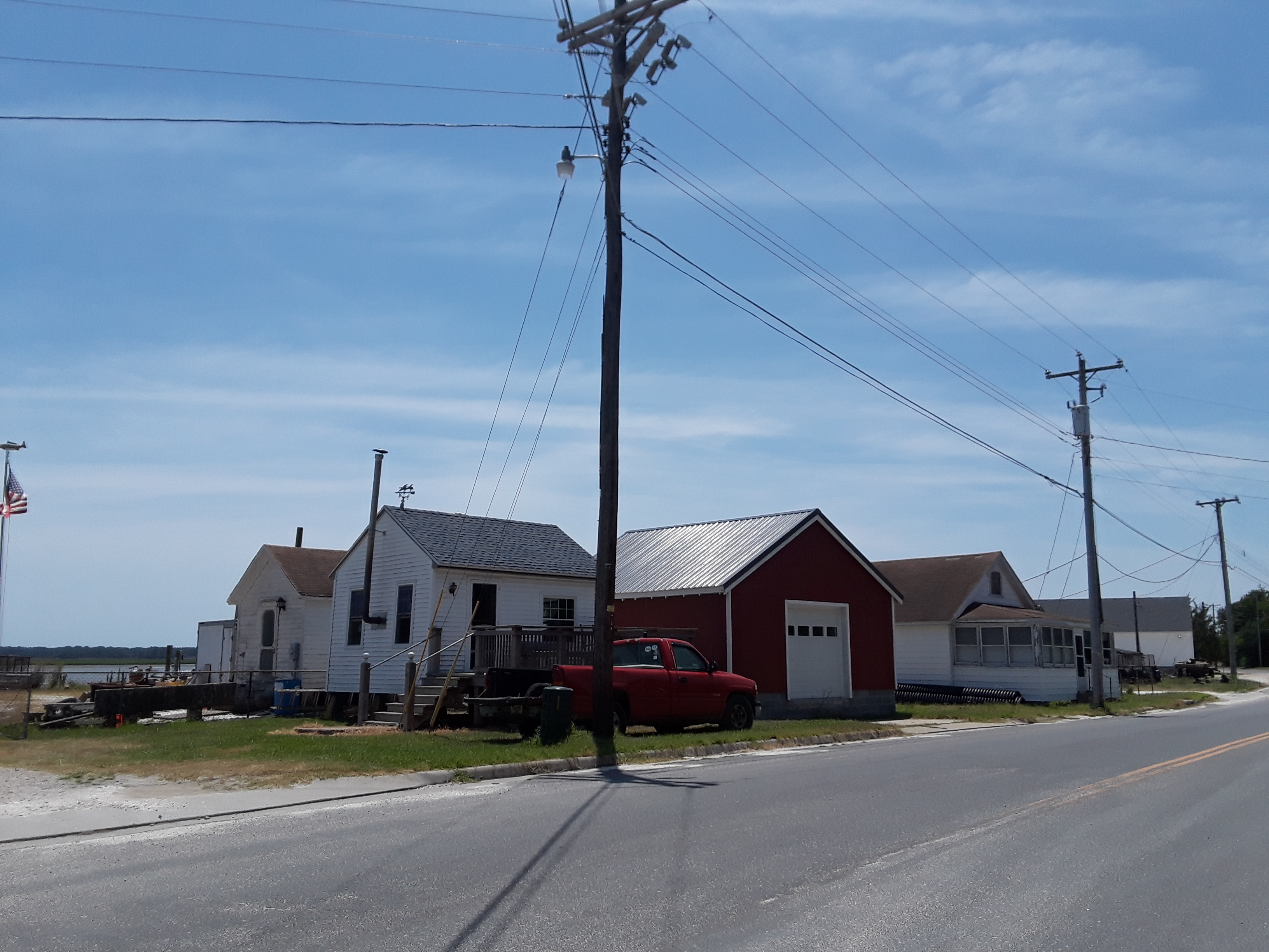 Taken on a visit to the Eastern Shore of Virginia, July 2018